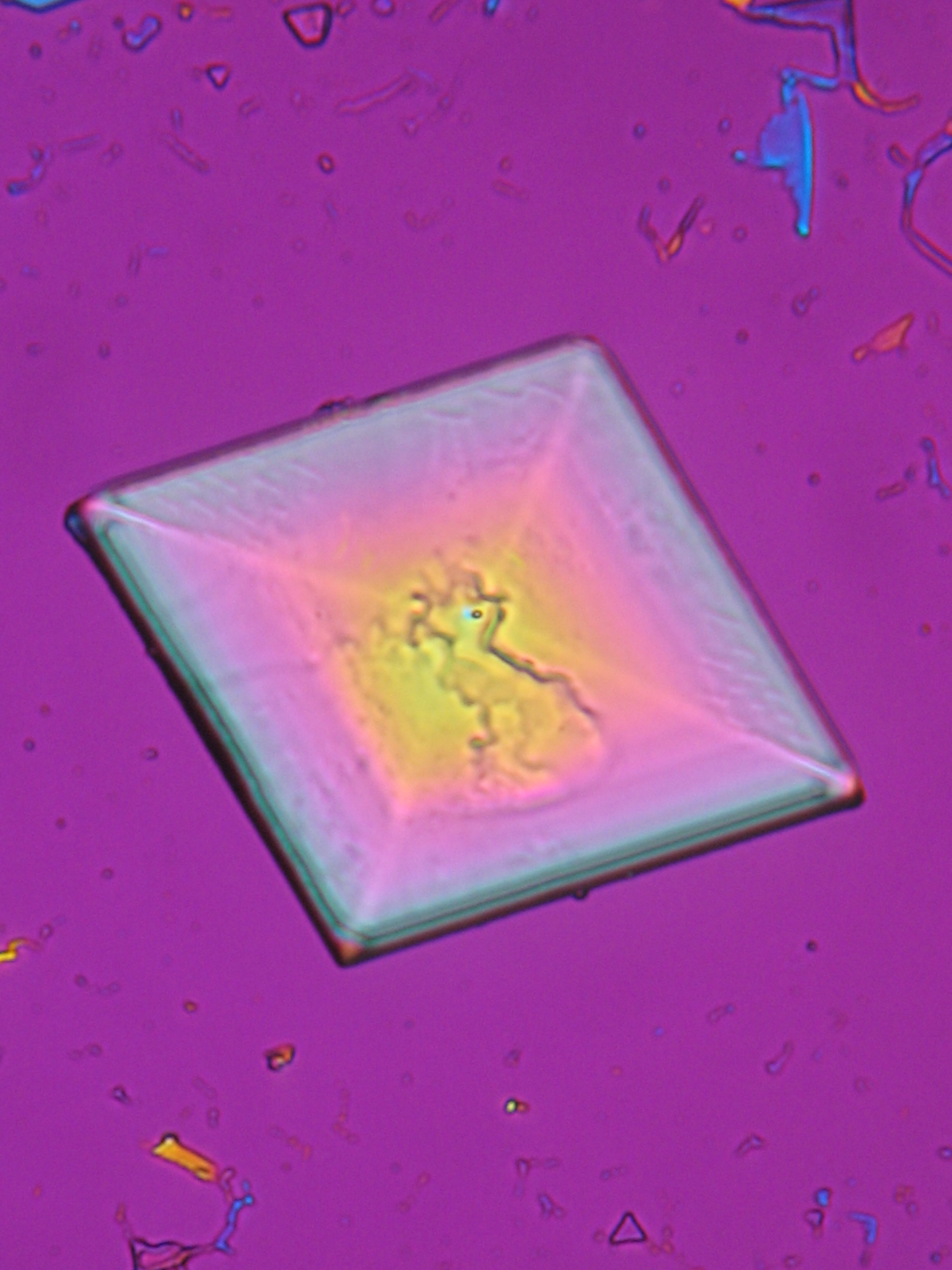 Image of a crystal of KNO3 under a polarising microscope